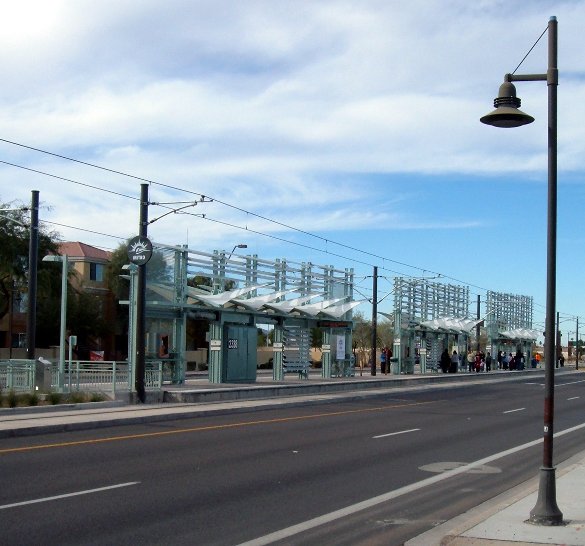 Photograph of the Loop 101 (Price Freeway) (or Apache at Price) Station of METRO Light Rail that serves the Phoenix area, Arizona, USA. This photograph was taken during the light rail's grand opening celebration on December 27, 2008.